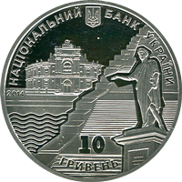 The obverse of commemorative silver coin of Ukraine "220 years of Odessa" (2014)